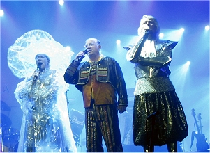 Tri Yann in Lorient, Brittany